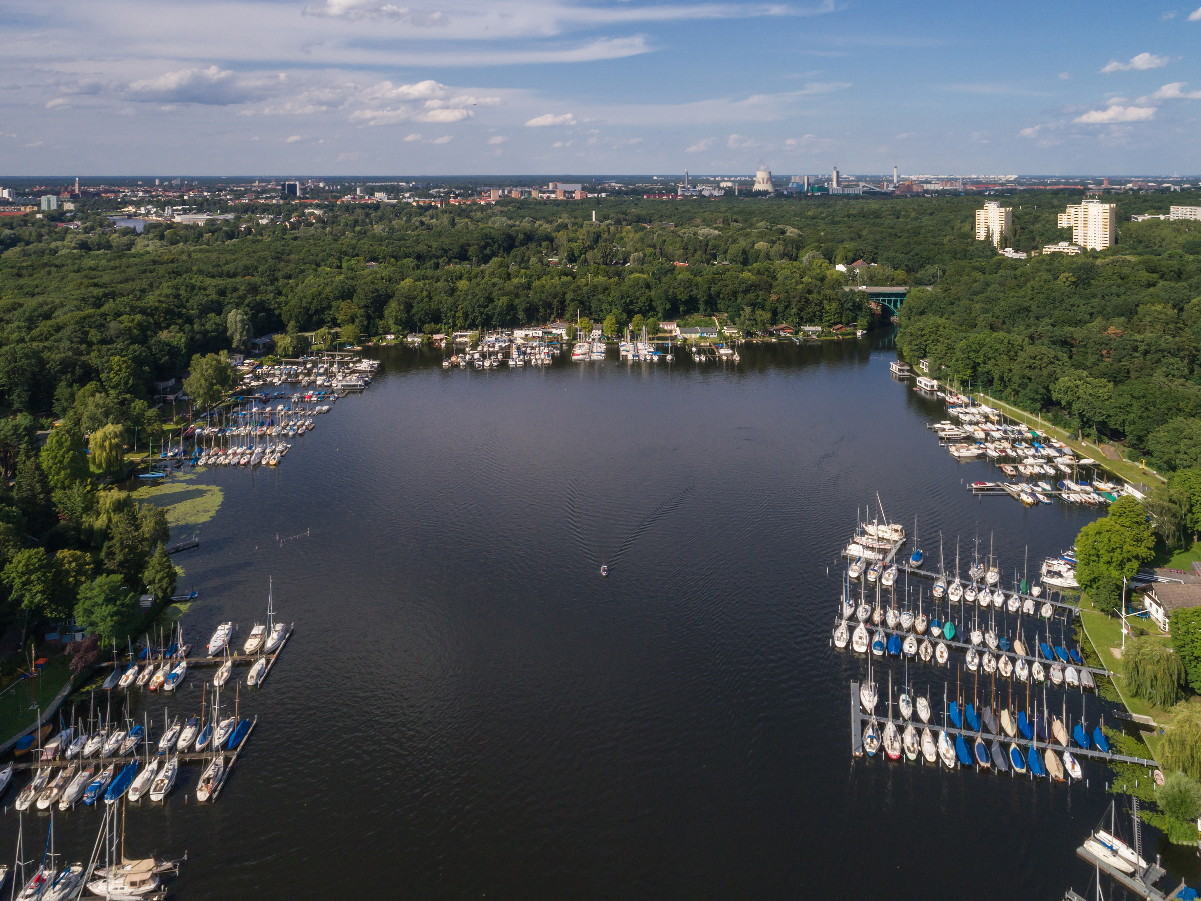 Lake Stößensee (aerial photo) in Berlin (Germany)